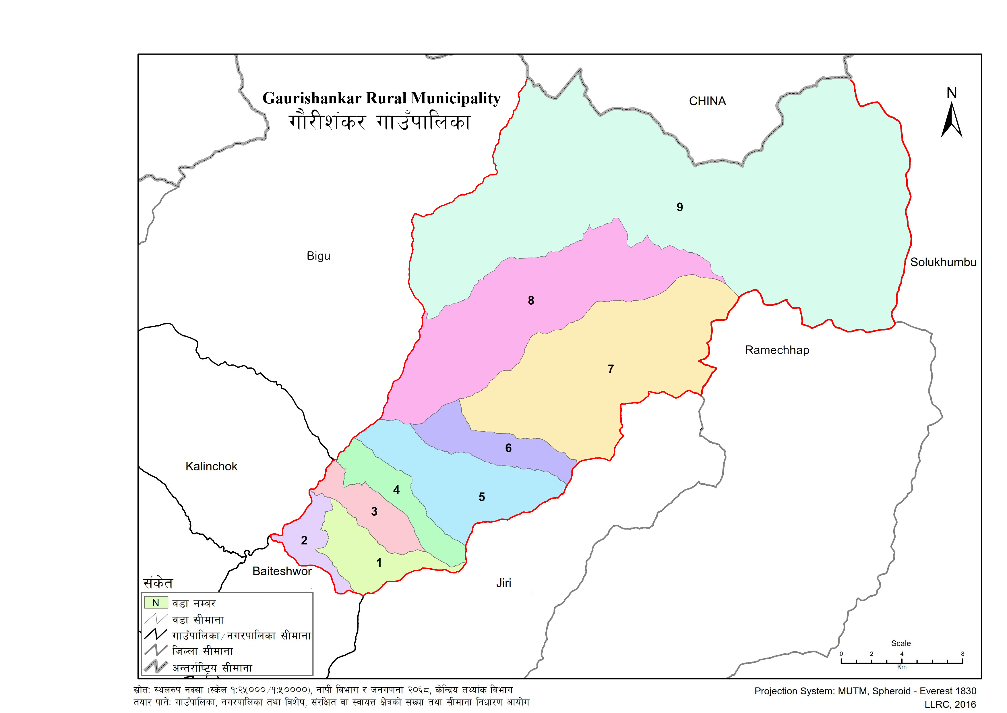 This is the map of Gaurishankar Rural Municipality of Dolakha District, Province No. 3, Nepal.